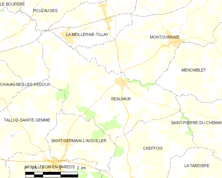 Map of French municipality Réaumur